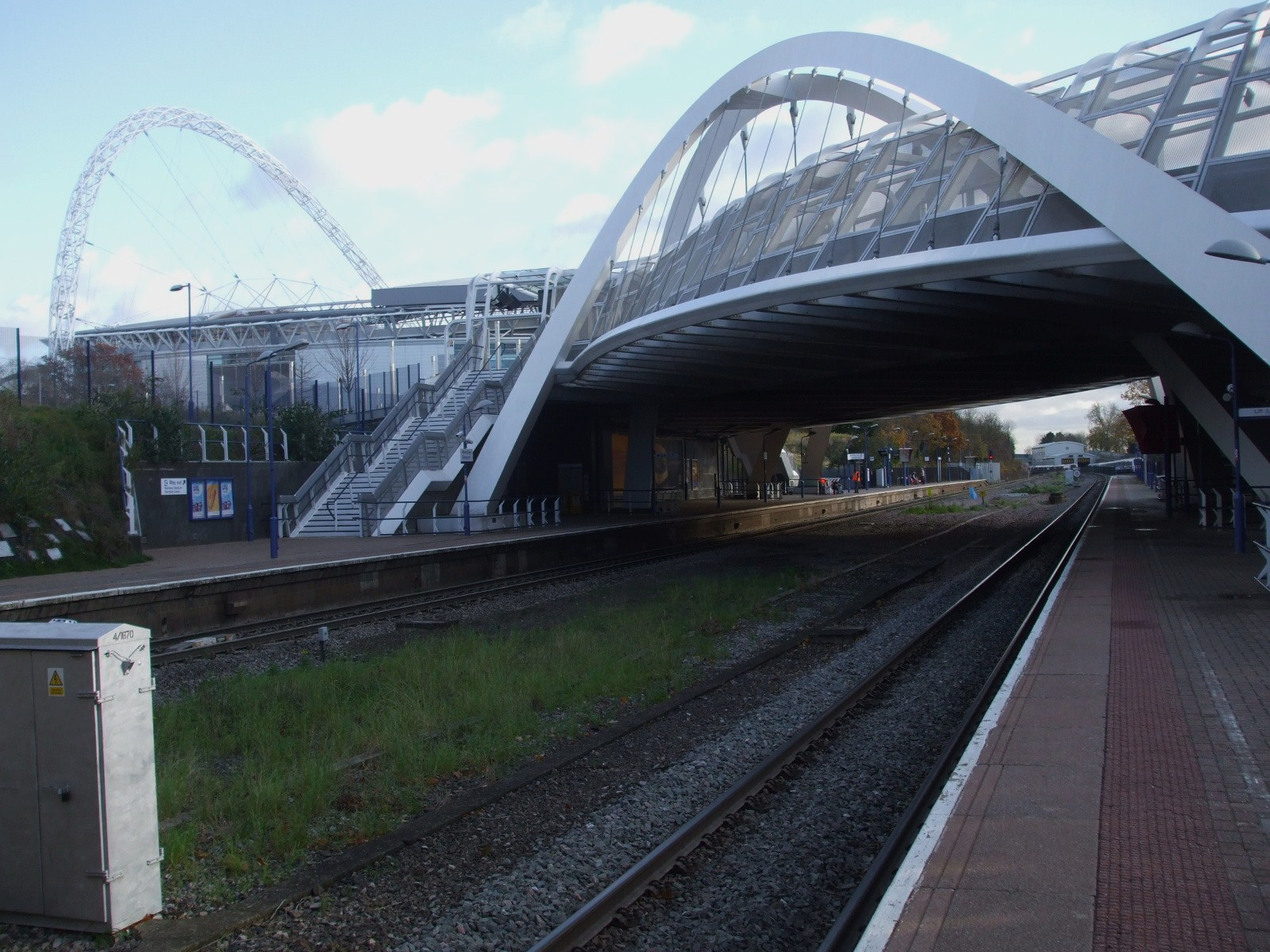 Wembley Stadium station looking east